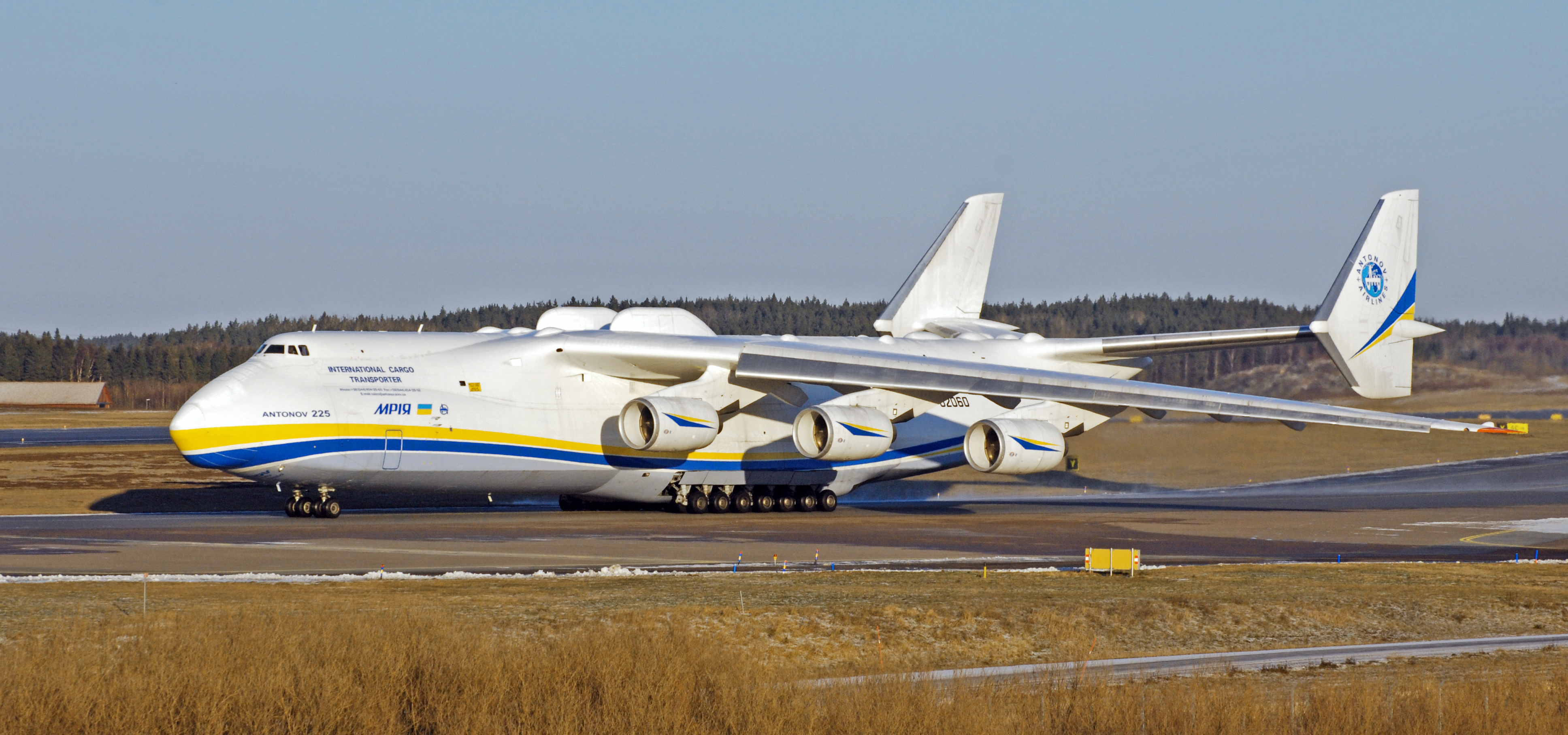 Antonov An-225 at Arlanda airport, Stockholm